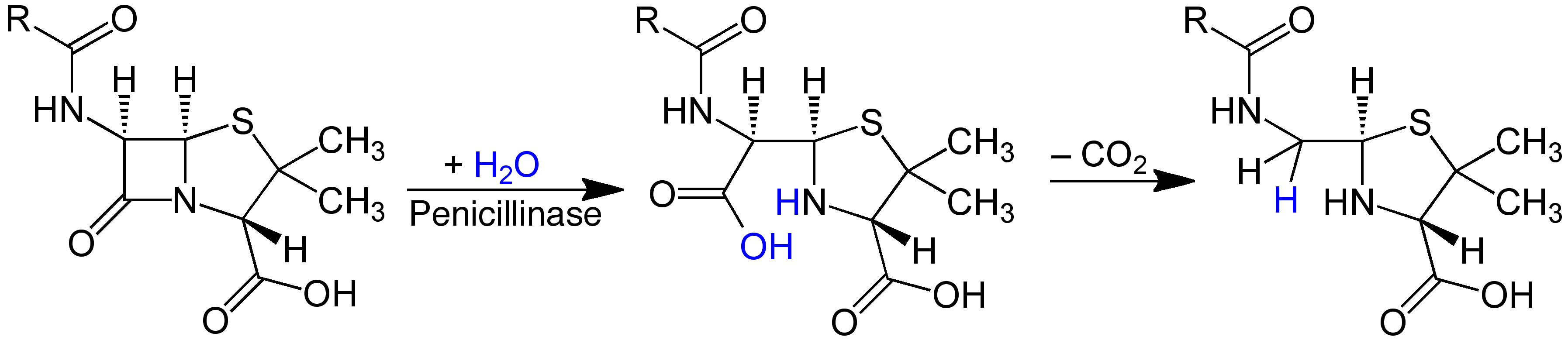 Penicillinase_Application